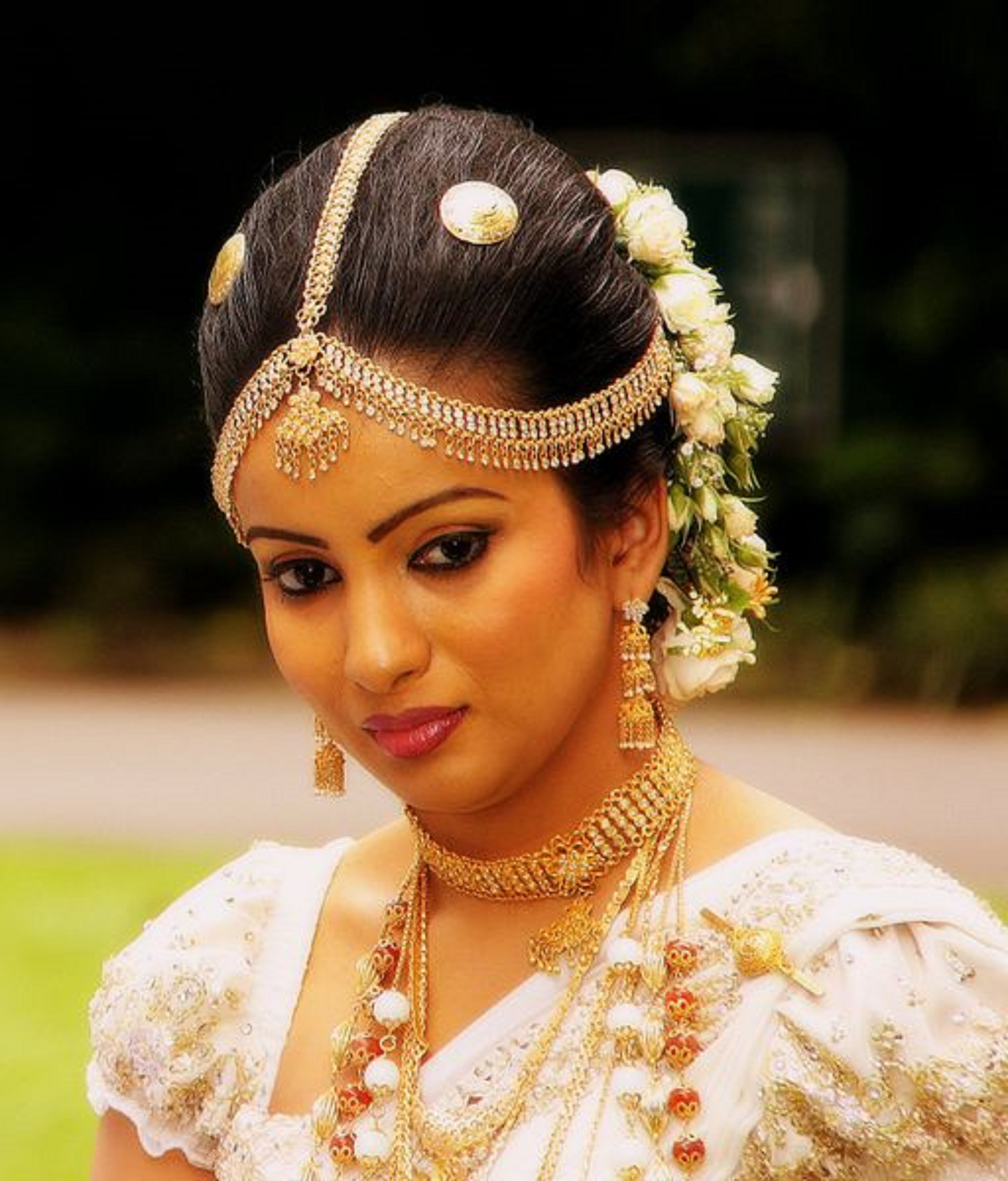 Bride in Sri Lanka Kandy